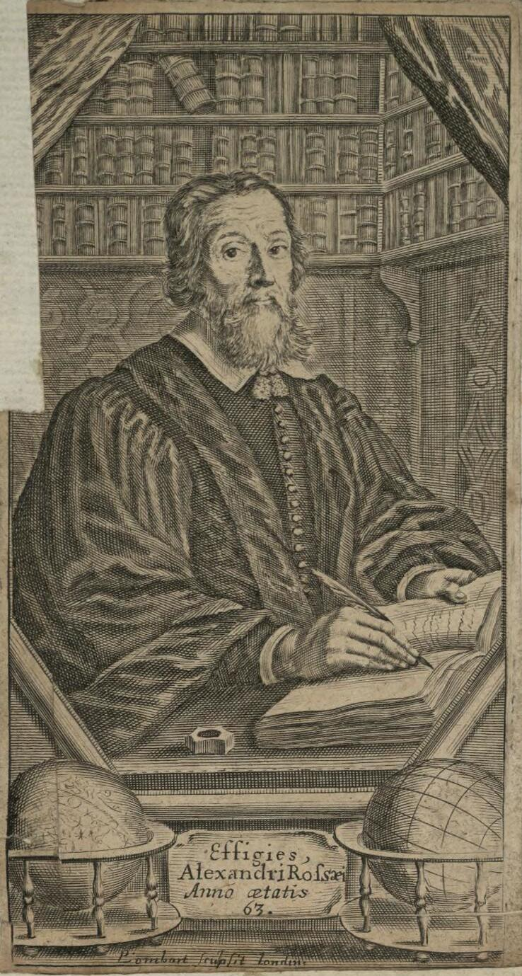 A portrait from the Welsh Portrait Collection at the National Library of Wales. Depicted person: Alexander Rose – Scottish bishop